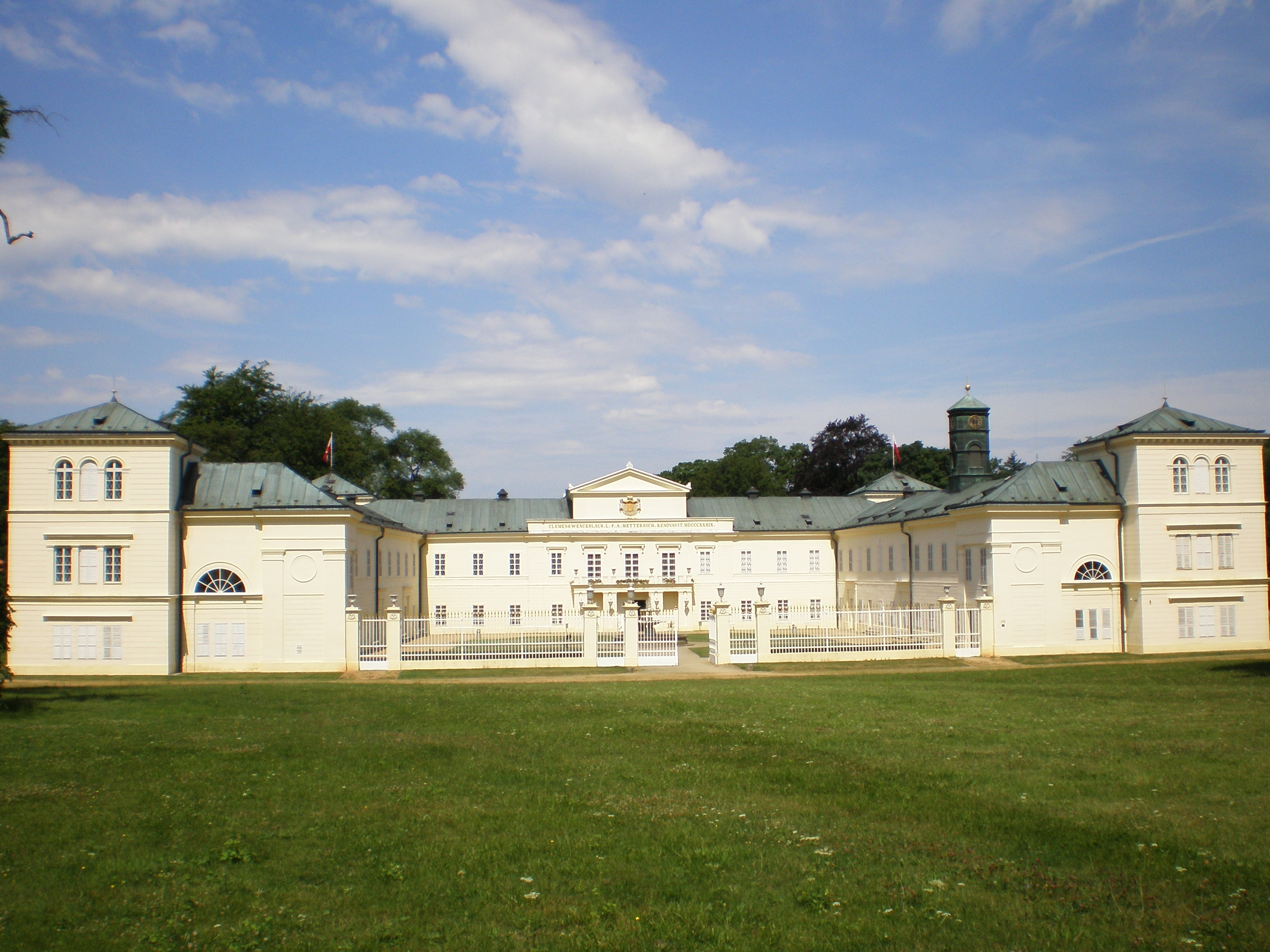 Castle Kynžvart in city Lázně Kynžvart, Czech Republic (2008)